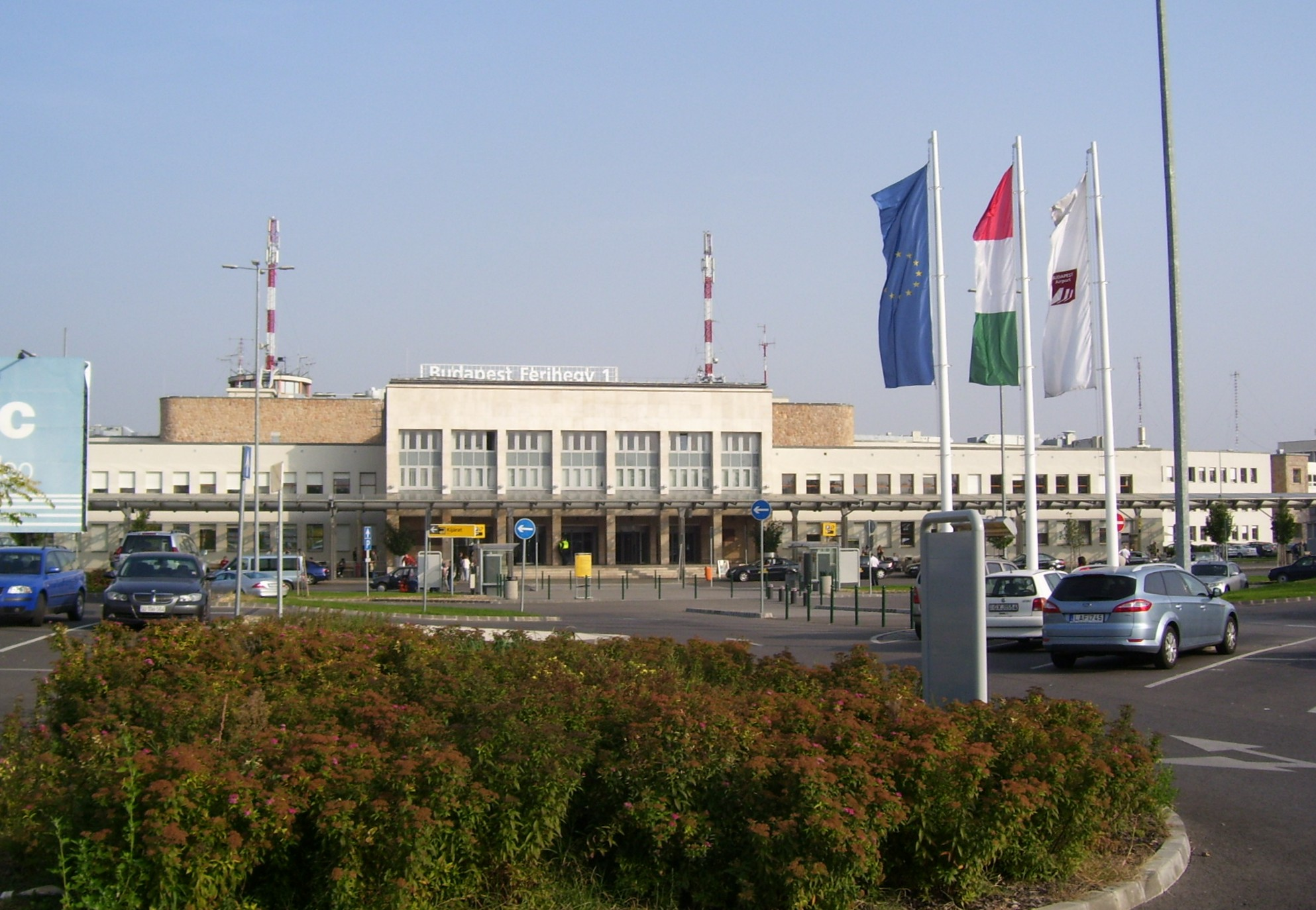 Budapest Ferenc Liszt Airport Terminal 1